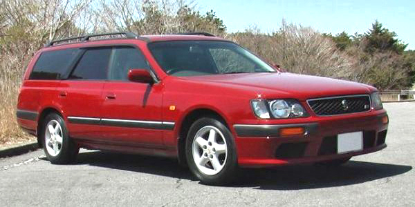 Nissan Stagea C34